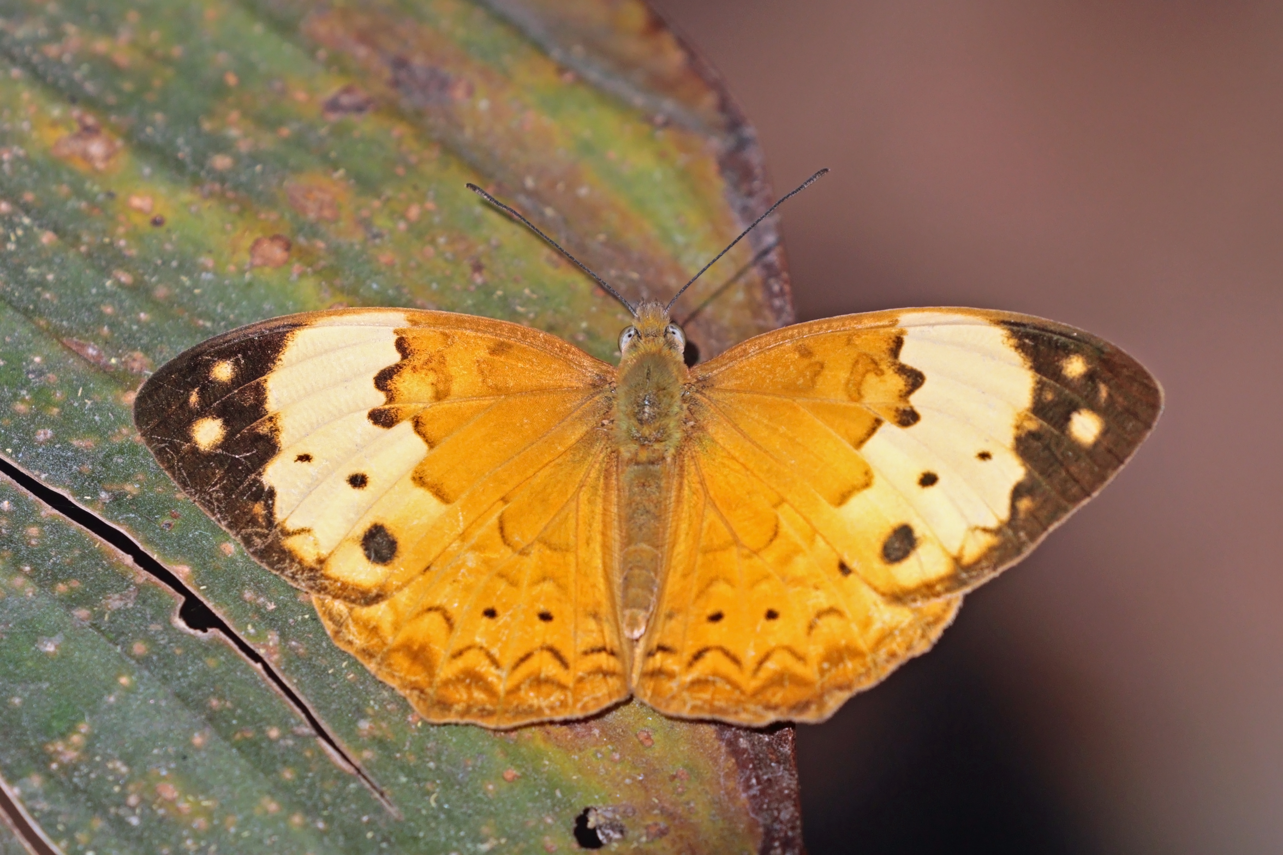 Rustic (Cupha erymanthis lotis), National Botanical Garden, Godawari, Nepal